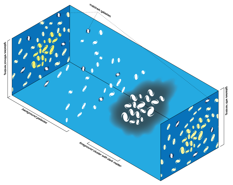 Diagram showing showing the effects of gravitational lensing in 3D.